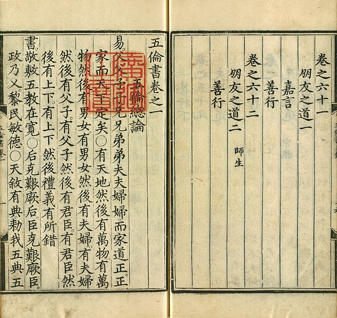 On the Five Relationships Written by Emperor Hsüan-tsung, Ming Dynasty Imperial Household printed edition, 1448, Ming Dynasty Dimensions: 37 x 23 cm (H x W) Columns: 30 x 19.3 cm (H x W)